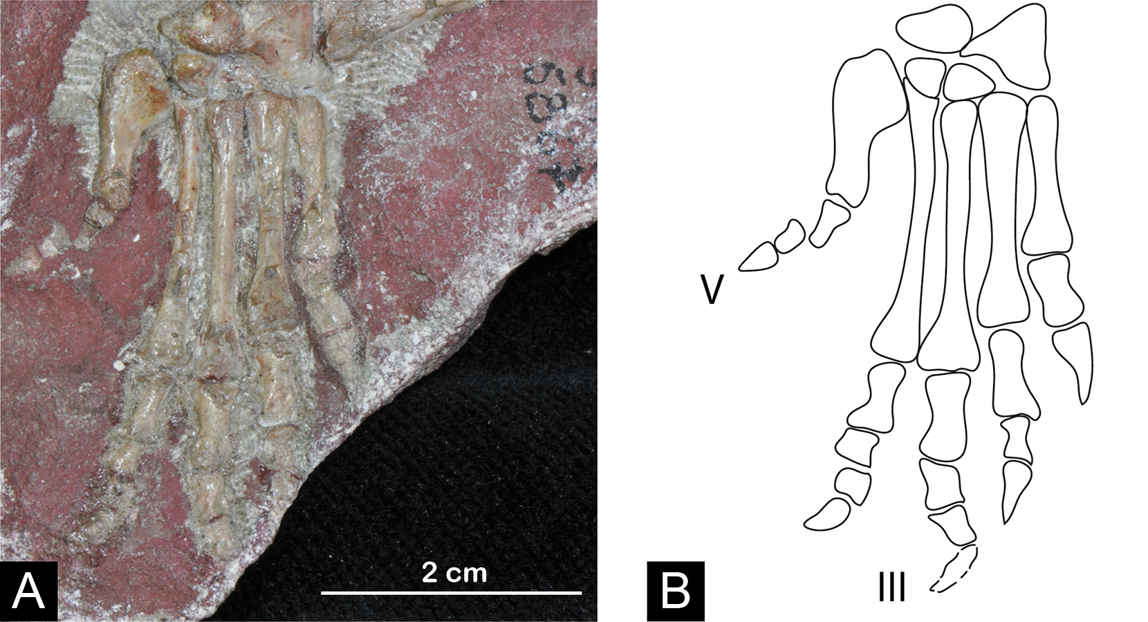 A) Skeleton of the right foot of Euparkeria capensis BROOM 1913 (specimen Iziko Museum SAM PK K8309) from the Middle Triassic of South Africa. B) Intepretative drawing of the same specimen. Note the laterally pointing fifth digit which is also present in chirotheriid trace fossils.